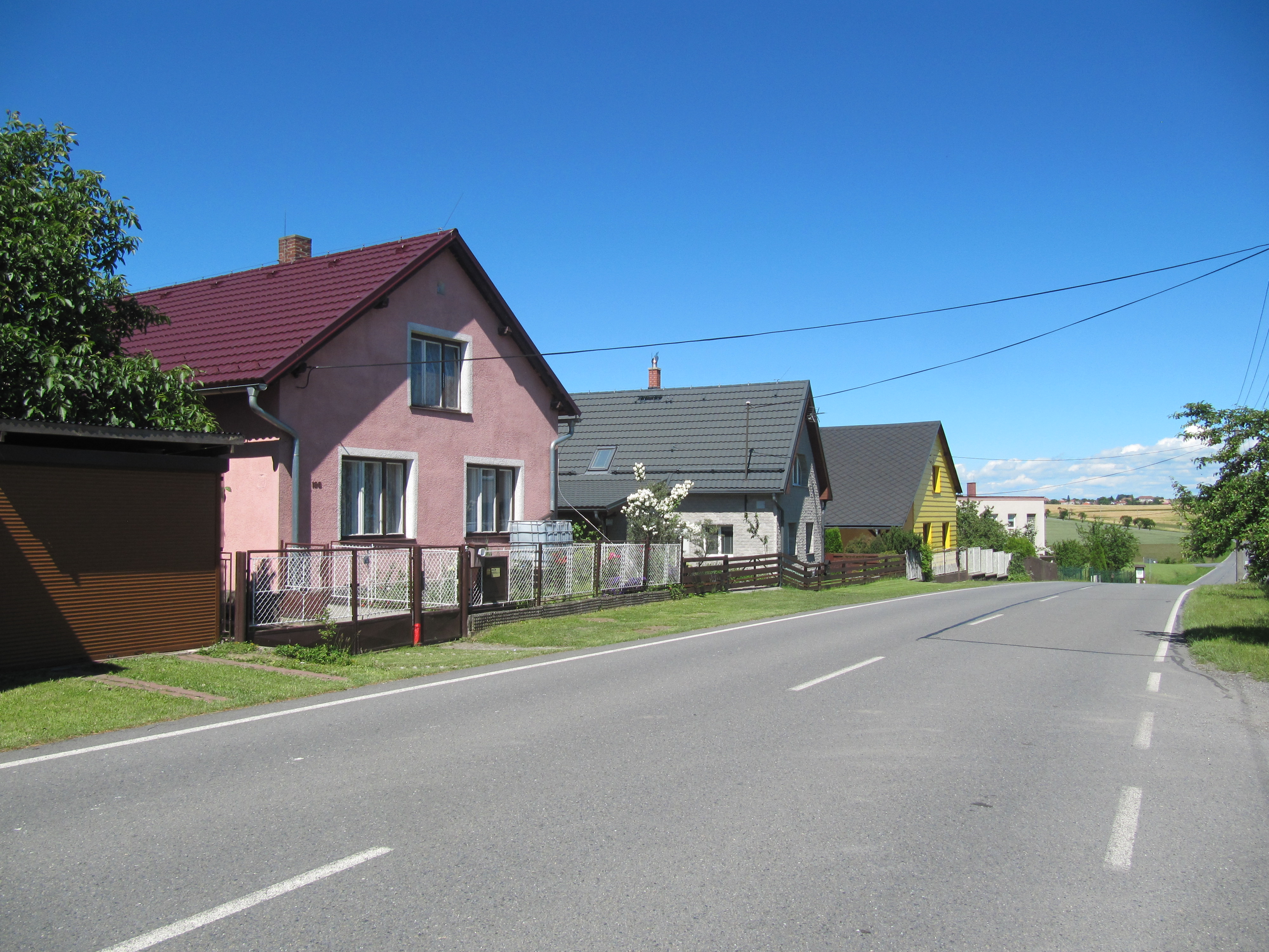 Tísek, Nový Jičín District, Czech Republic, part Karlovice.